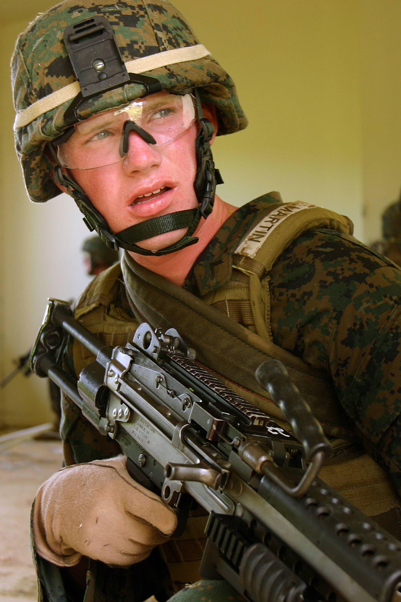 Pfc. Nick Martin, a M-249 Squad Automatic Weapon machinegunner with Battalion Landing Team, 1st Battalion, 5th Marine Regiment, provides security as members of his squad pass through a danger area during an urban movement drills at the former military housing complex here Aug. 7 during Training in an Urban Environment Exercise or “TRUEX”. Instructors from the III Marine Expeditionary Force’s Special Operations Training Group supervised the training and provided detailed evaluations and feedback on the MSPF’s performance. In the upcoming weeks, Marines and sailors with the MSPF will be participating in raids and a range of direct action missions in different urban scenarios, to prepare them for a variety of missions they may be called to respond to in overseas urban terrain. The BLT is the 31st Marine Expeditionary Unit’s ground combat element. Photo by: Lance Cpl. Kamran Sadaghiani Photo ID: 200689184453 Submitting Unit: 31st MEU